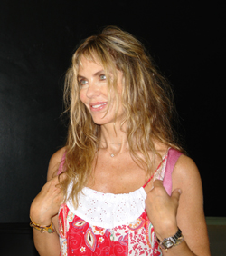 Other information I am happy to allow anyone use this picture of Elizabeth. Actress, Director, Coach